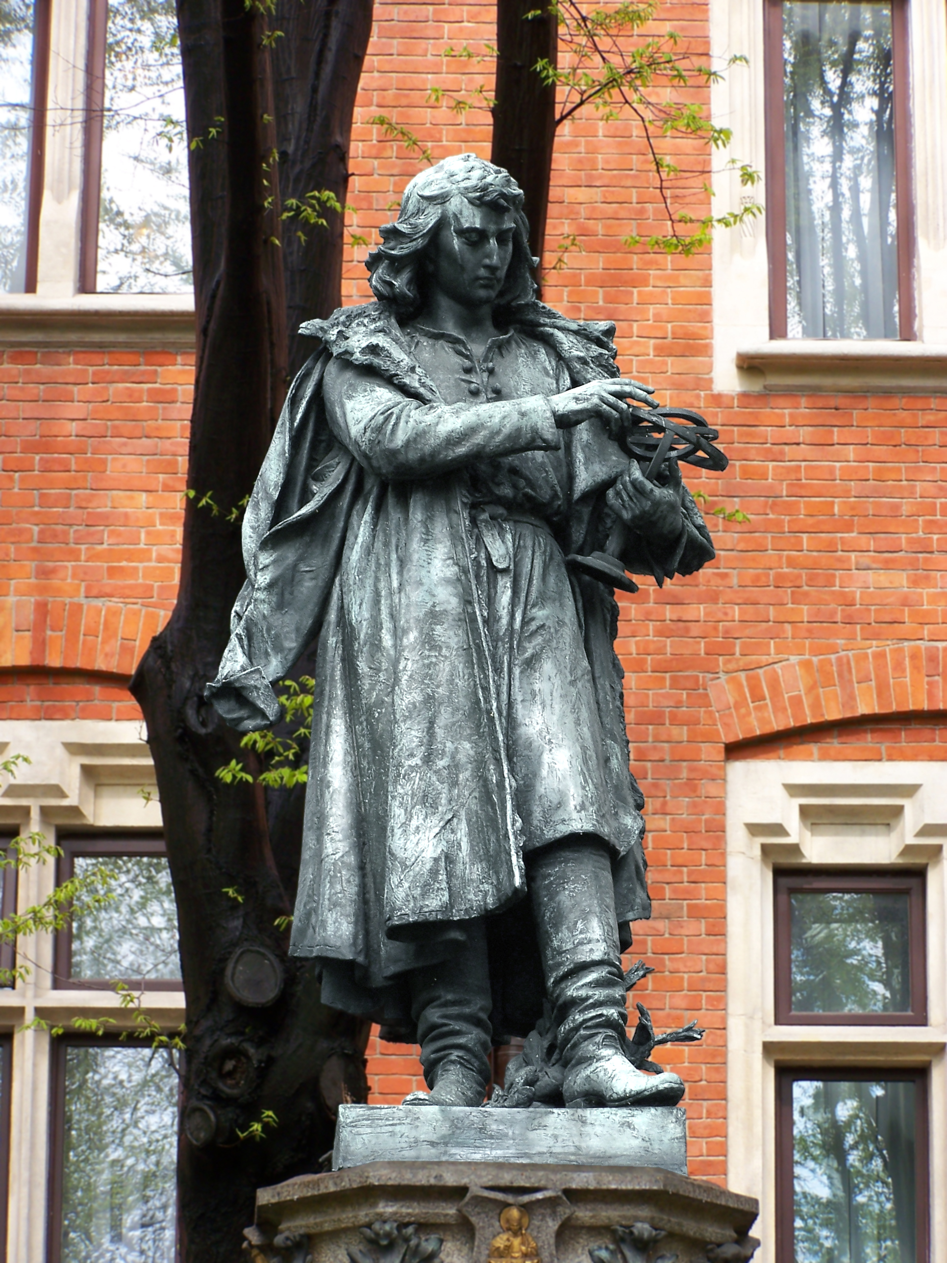 Nicolaus Copernicus Monument in Kraków, by Professor Cyprian Godebski.